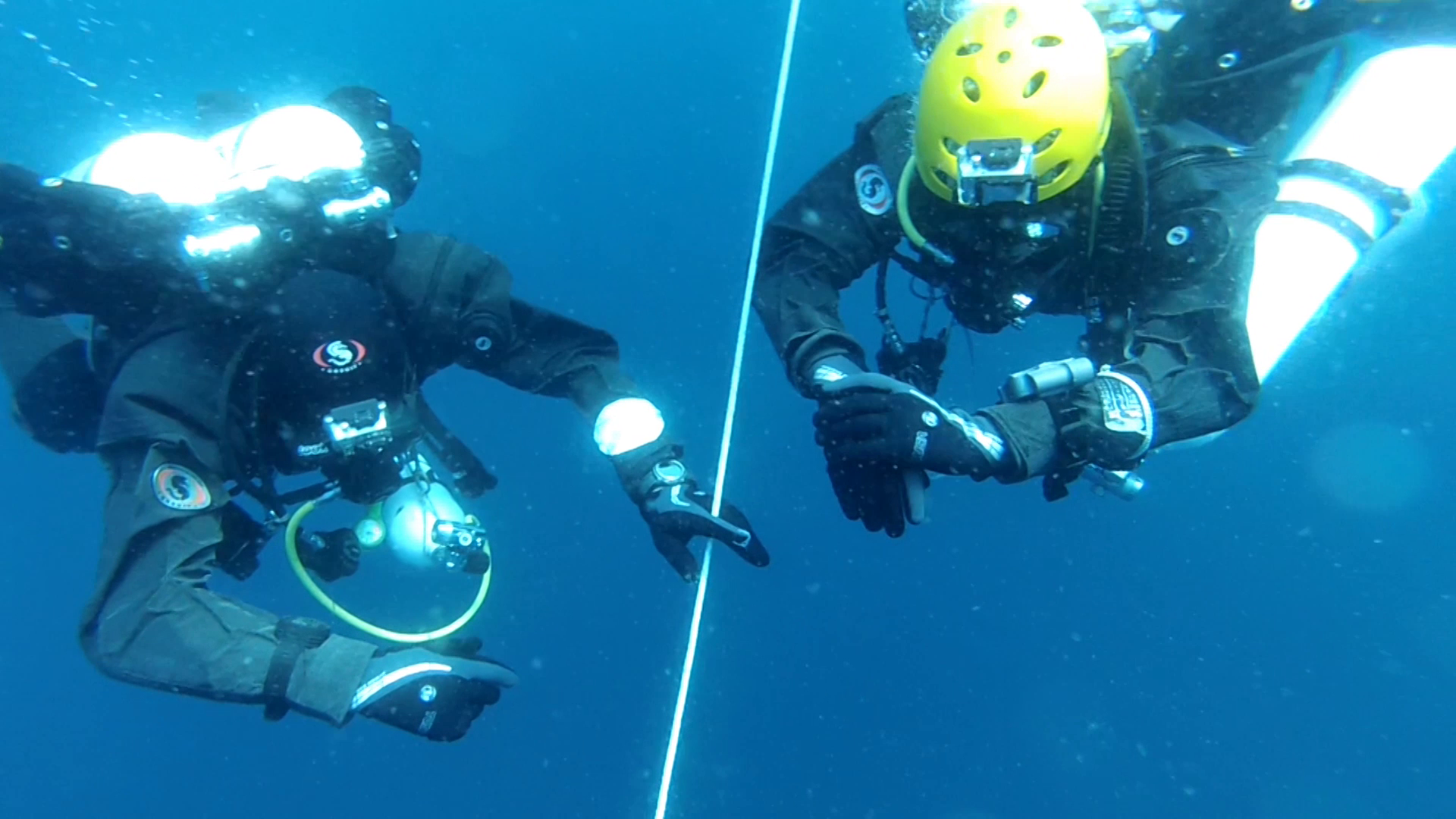 MYA